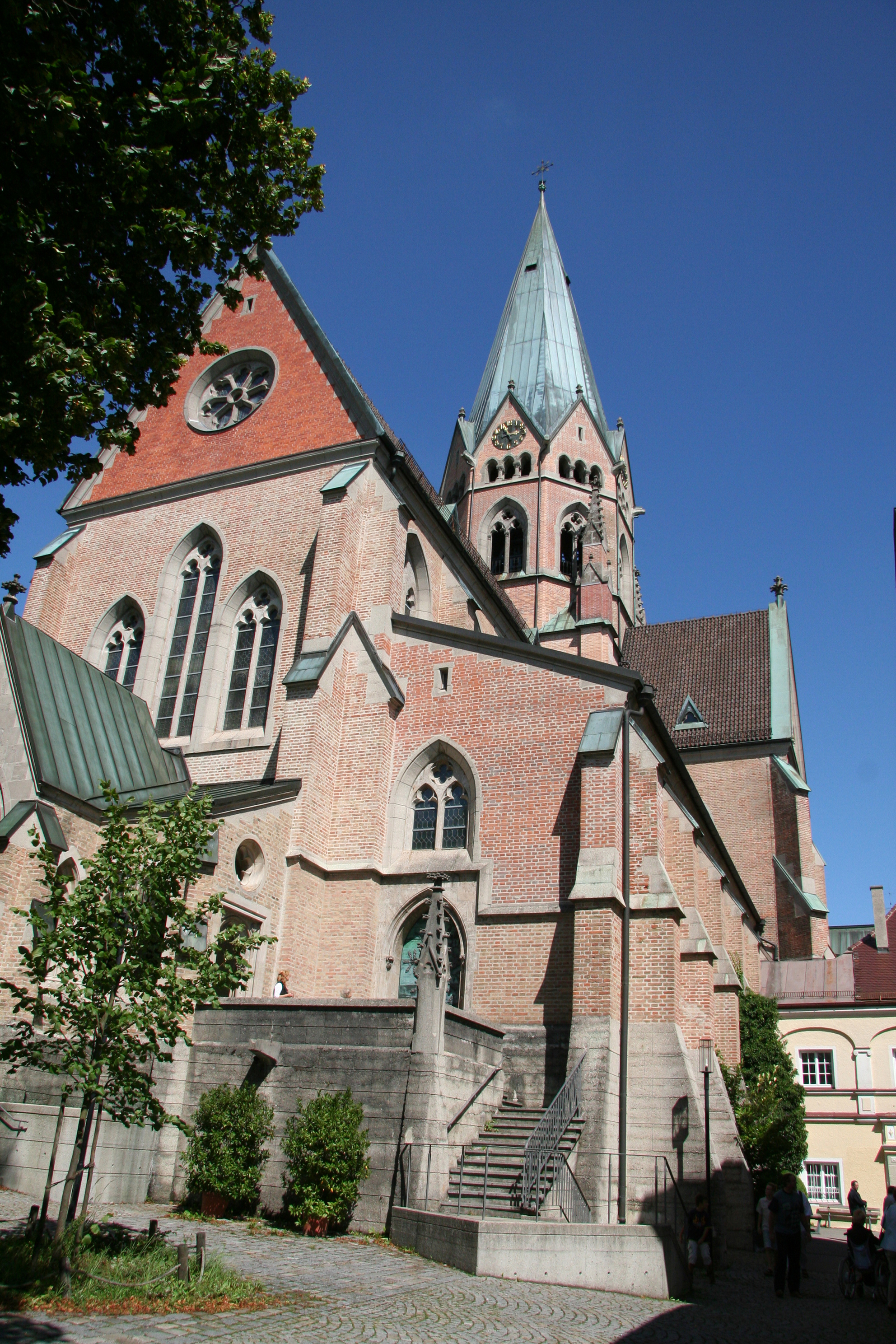 Erzabtei St. Ottilien west side, Eresing, Upper Bavaria, Benedictine monastary church